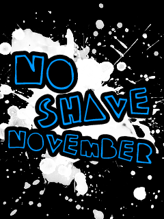 No Shave Novembers official logo